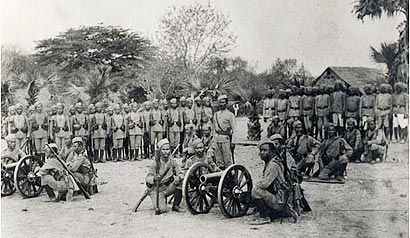 42nd Gurkha Light Infantry, later known as the 6th Gurkha Rifles.